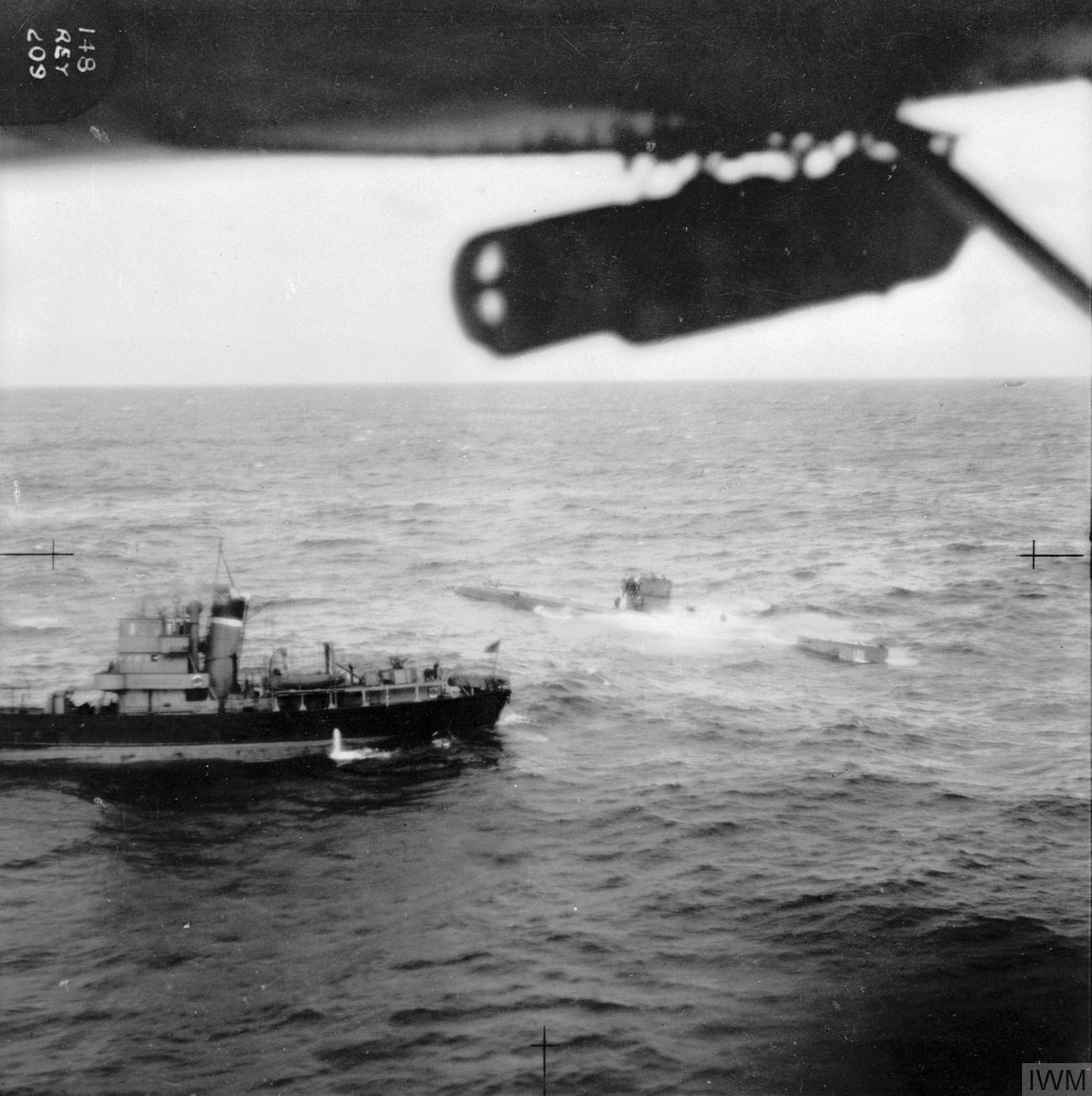 Capture of the German submarine U570. The surfaced submarine is alongside a Royal Navy ship. Taken from RAF Catalina aircraft of 209 Squadron.